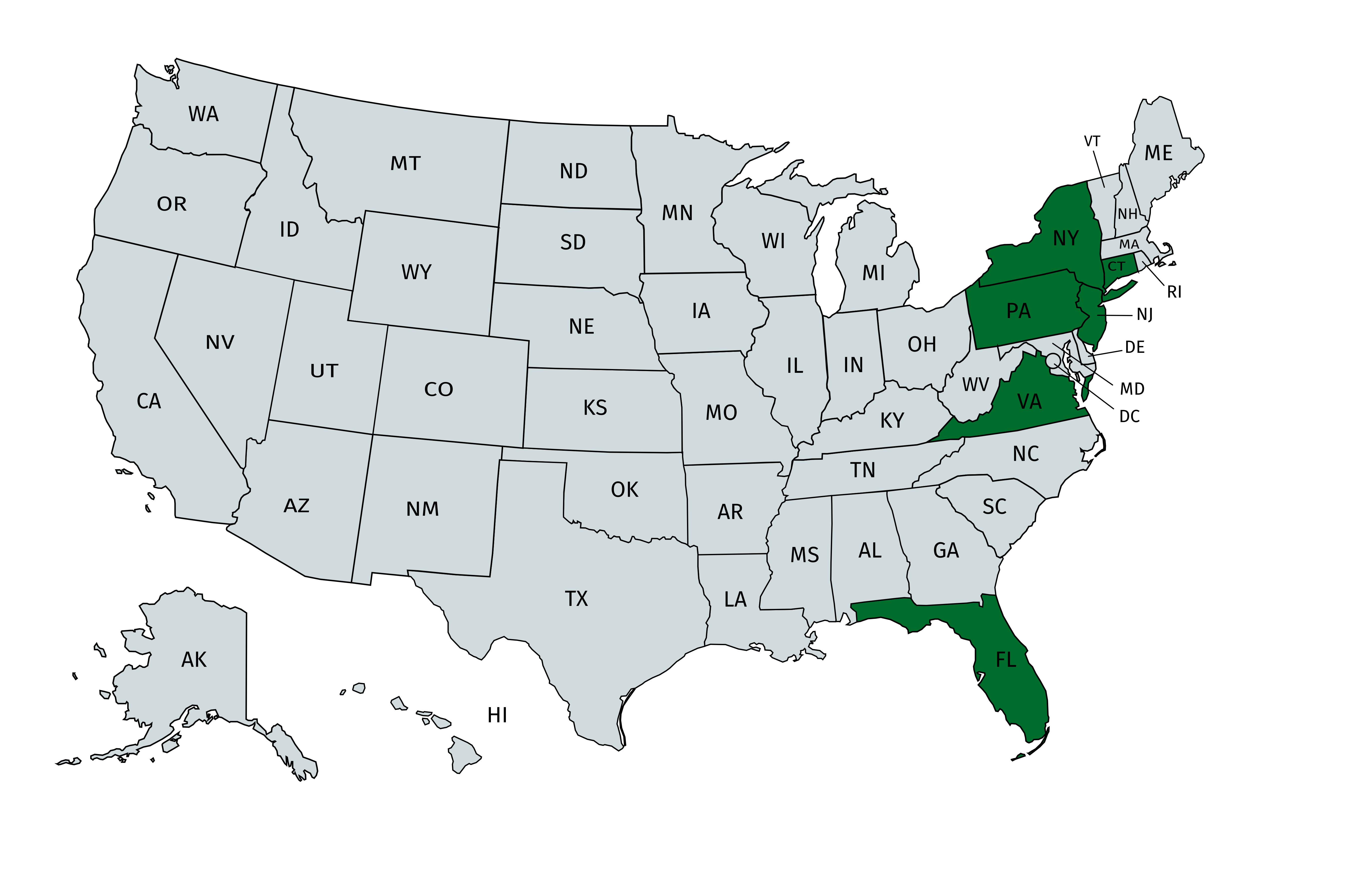 Map showing states represented at the 1948 Little League World Series, which was held from August 25 to August 28 in Williamsport, Pennsylvania.